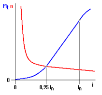 Electric motors